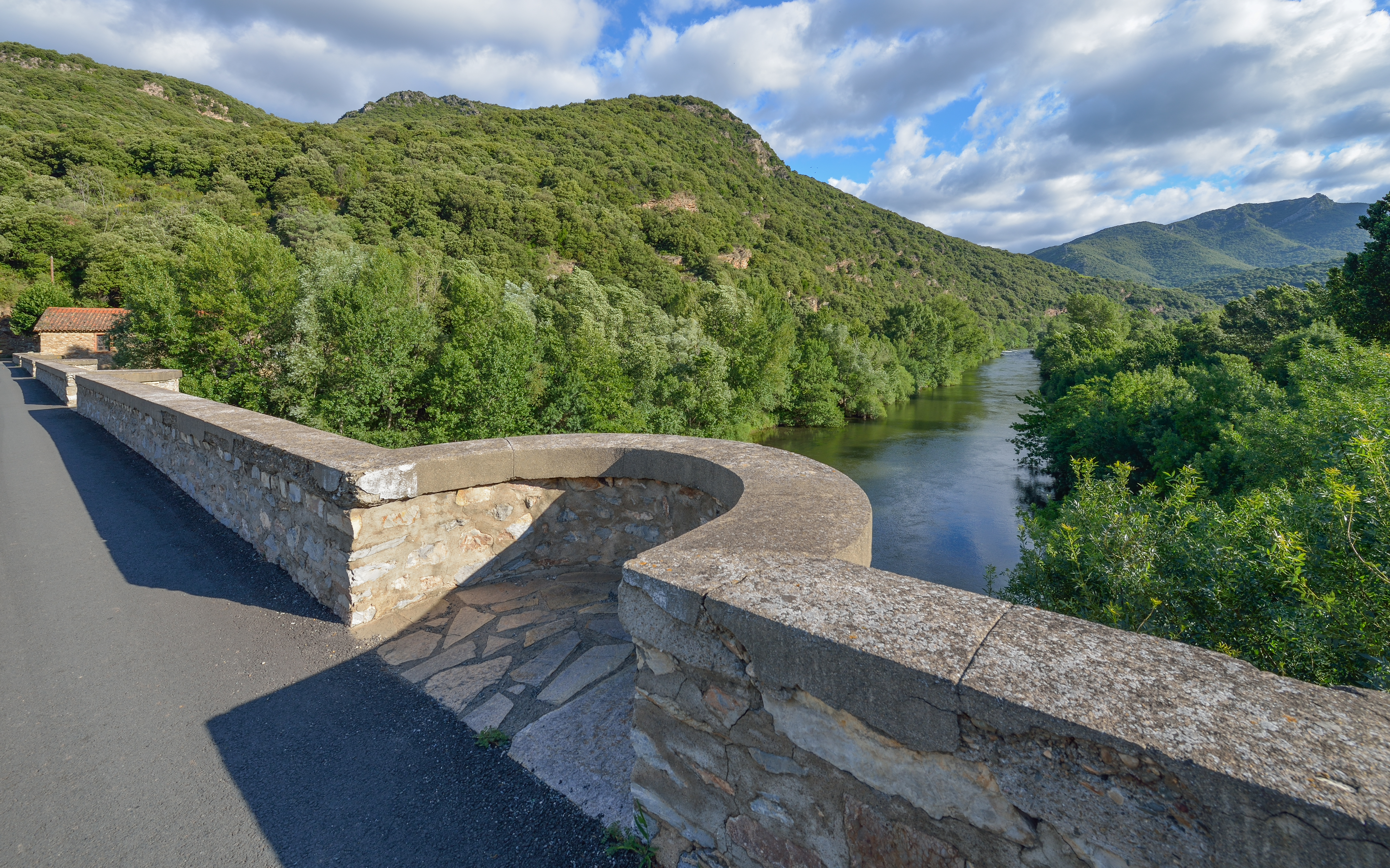 Orb River and Valley from the bridge of Ceps (XIXe century), downstream of the Gorges de l'Orb. On the left the Mount Cayre (451m) and in the right in the background (in the commune of Vieussan), the Mount of La Tour du Pin (666m). Hamlet of Ceps, Roquebrun, Hérault, France. Haut-Languedoc Regional Natural Park.